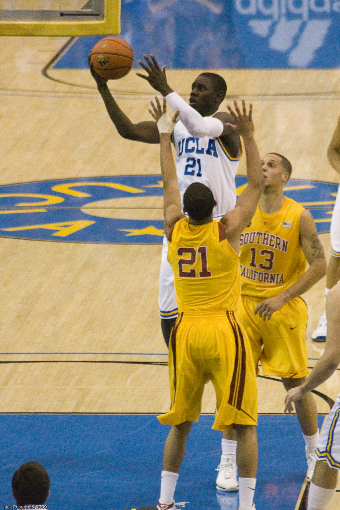 Jrue Holiday of UCLA Bruins